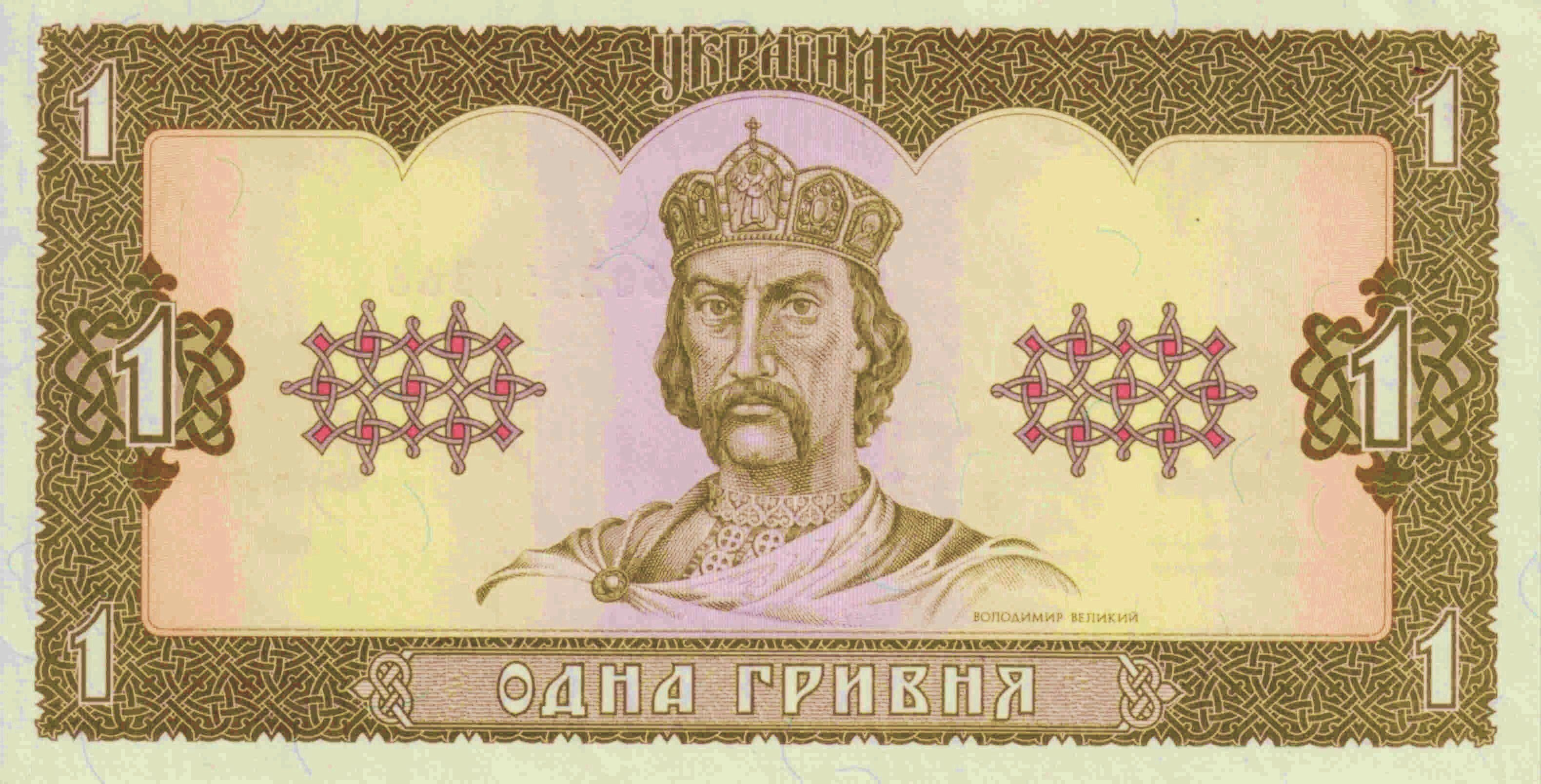 Hryvnia, front, 1992 Ukraine